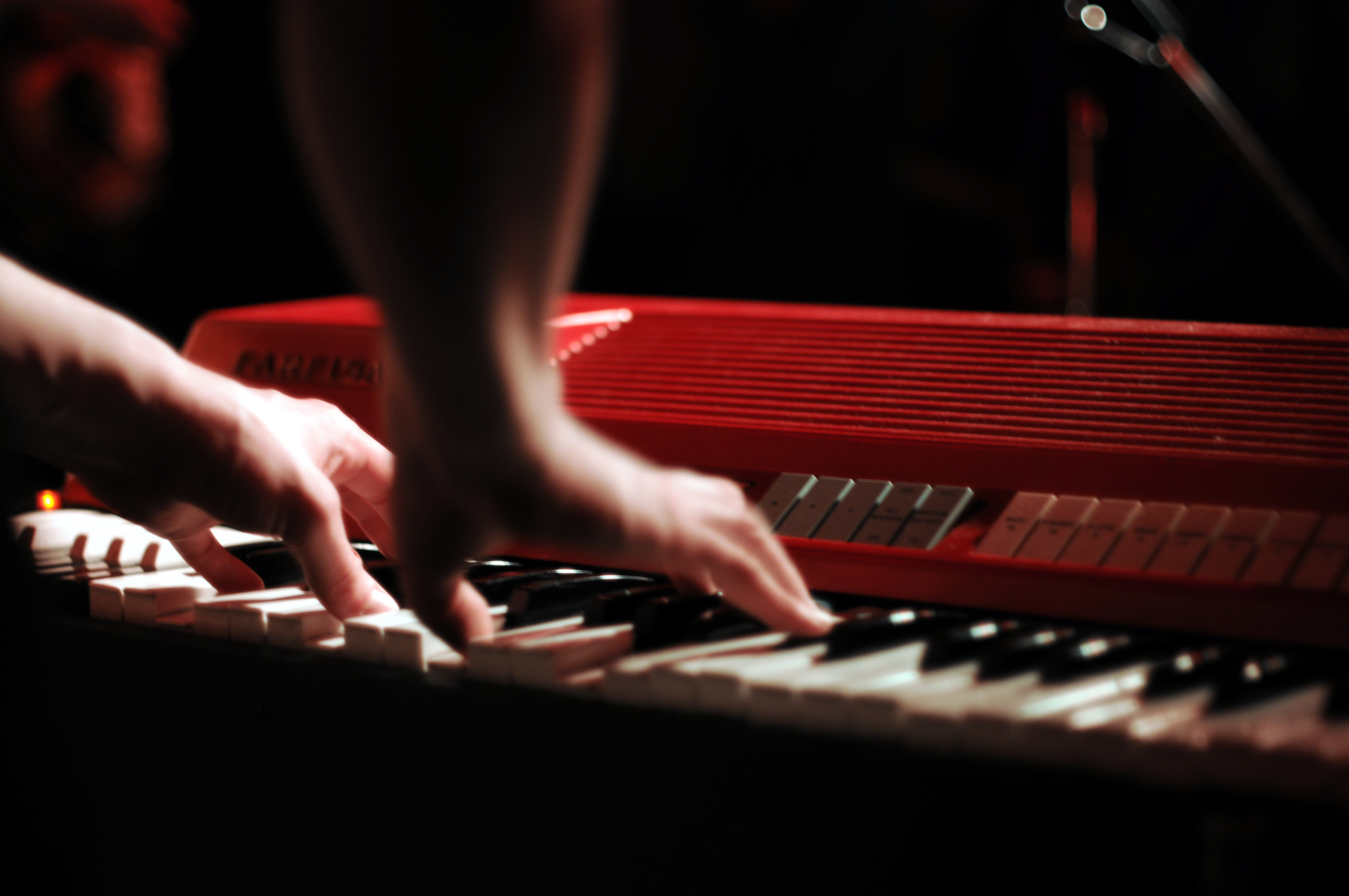 Erik Haegert (The Magnificent Brotherhood) live at NBI Farfisa Combo Compact